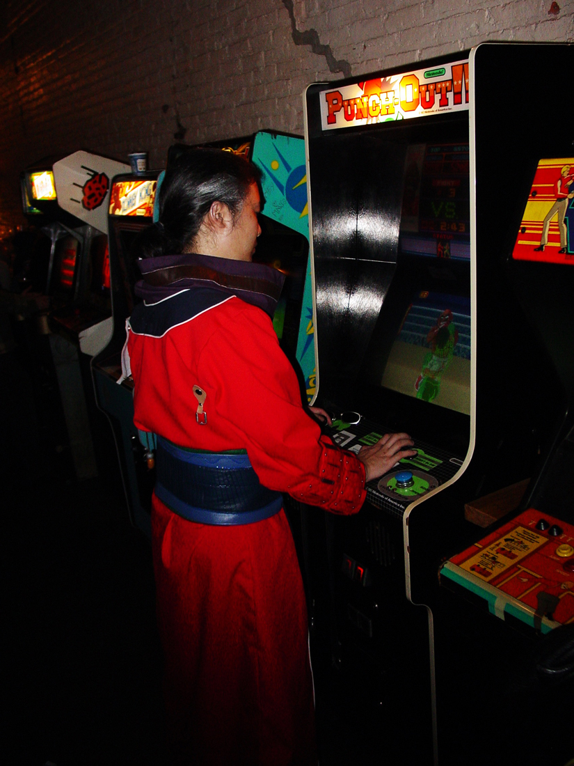 Ahh Barcade, where Brooklyn's hipsters meet New York's geeky gamers. Wait... those two are not really that different are they?